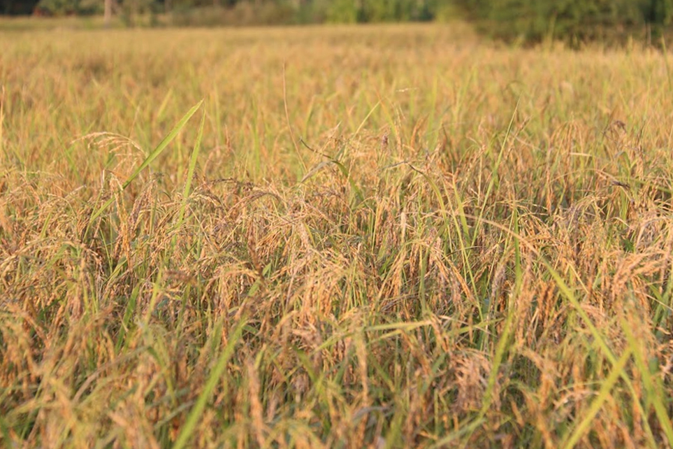 Beautiful Ripple rice in Rural Prey Veng